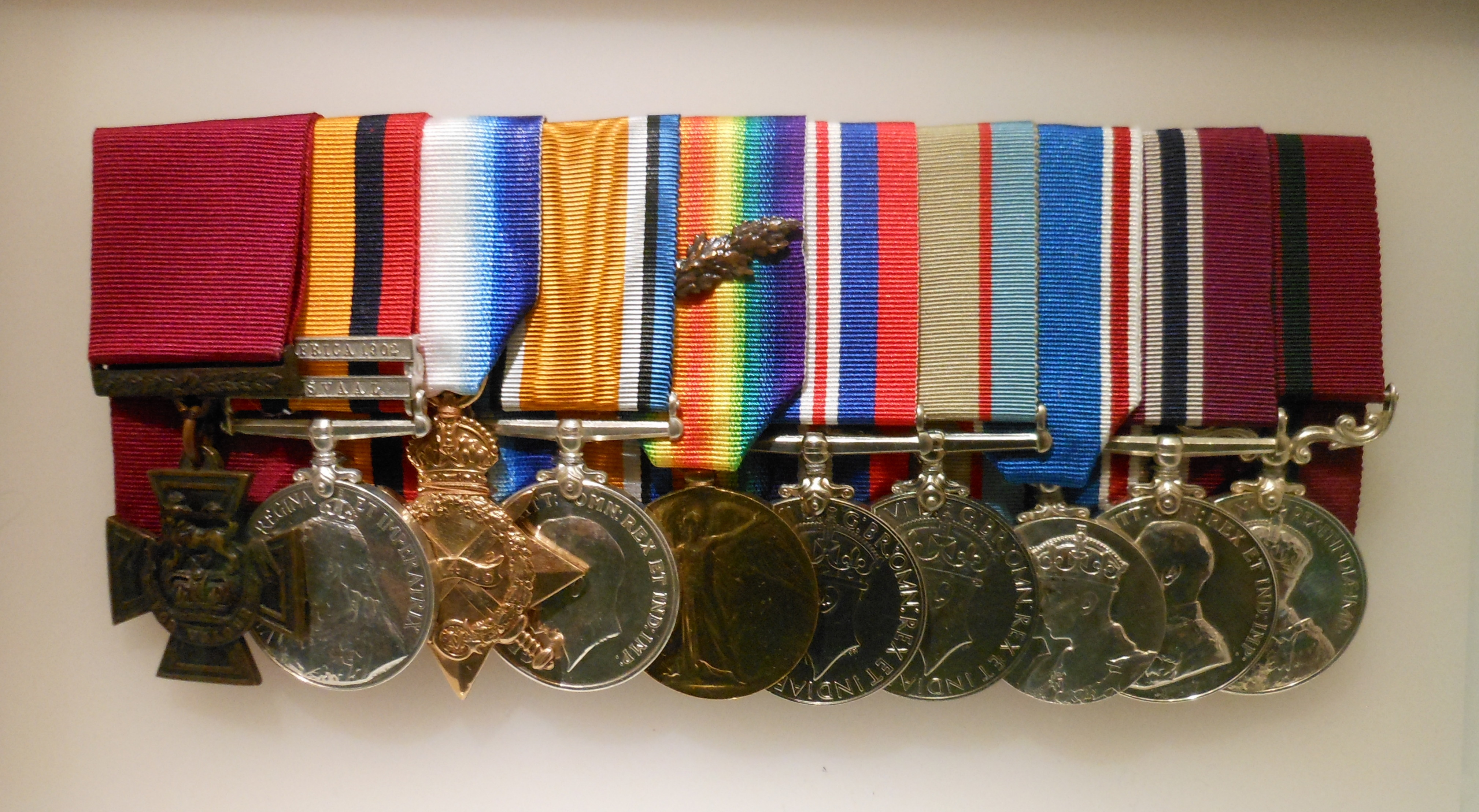 The decorations and medals awarded to James Newland VC on display at the Australian War Memorial in Canberra. Newland was an Australian recipient of the Victoria Cross, decorated for his actions in 1917 during the First World War.